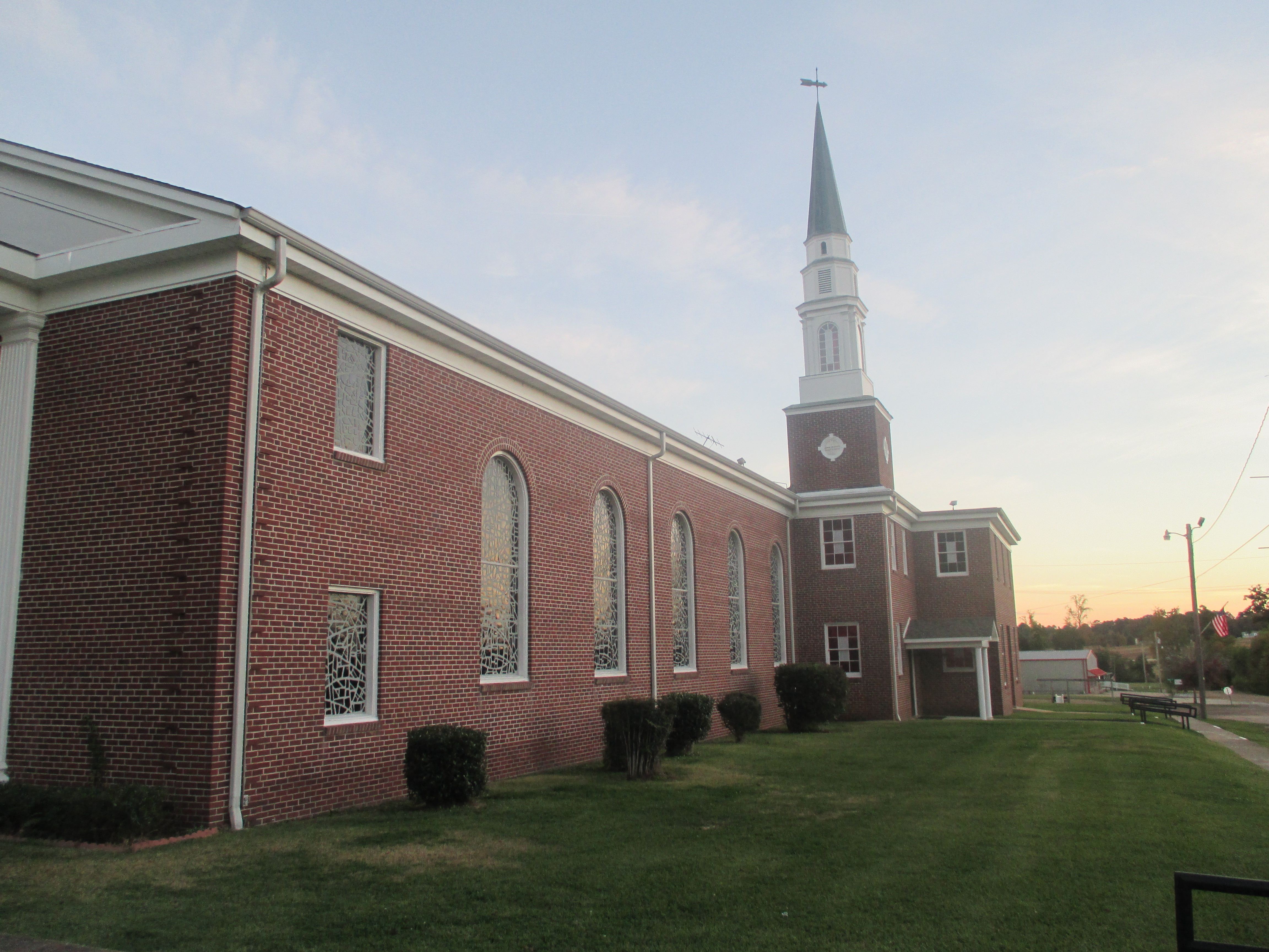 I took photo of First Baptist Church of Jena, with Canon camera.